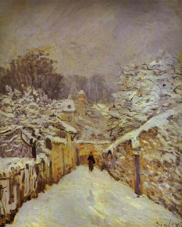 woman walking through the snow in a town